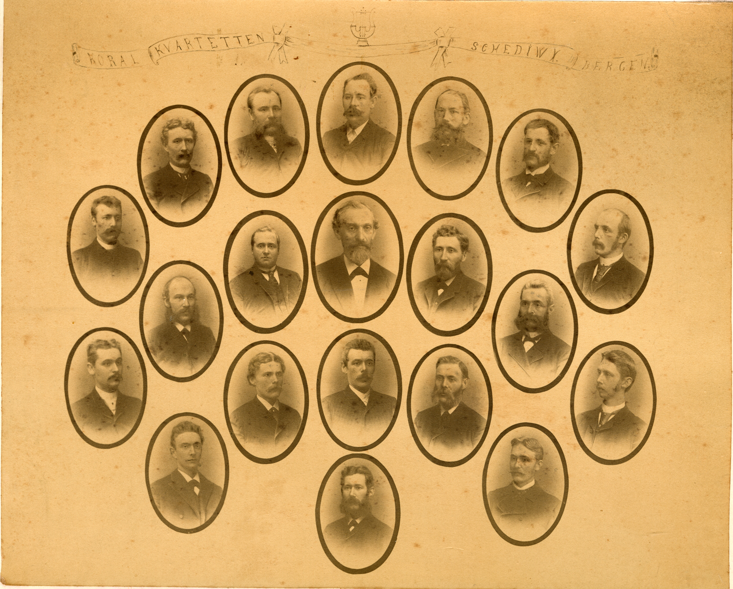 Artist: Unknown Date/place: Unknown Subject: The Corel Quartet Shcesiwy Medium: Photographic posetive Notes: Ferdinand Giovanni Schediwy, born in Böhmen, german - norwegian organist. Original belongs to the Archives at Bergen Public Library